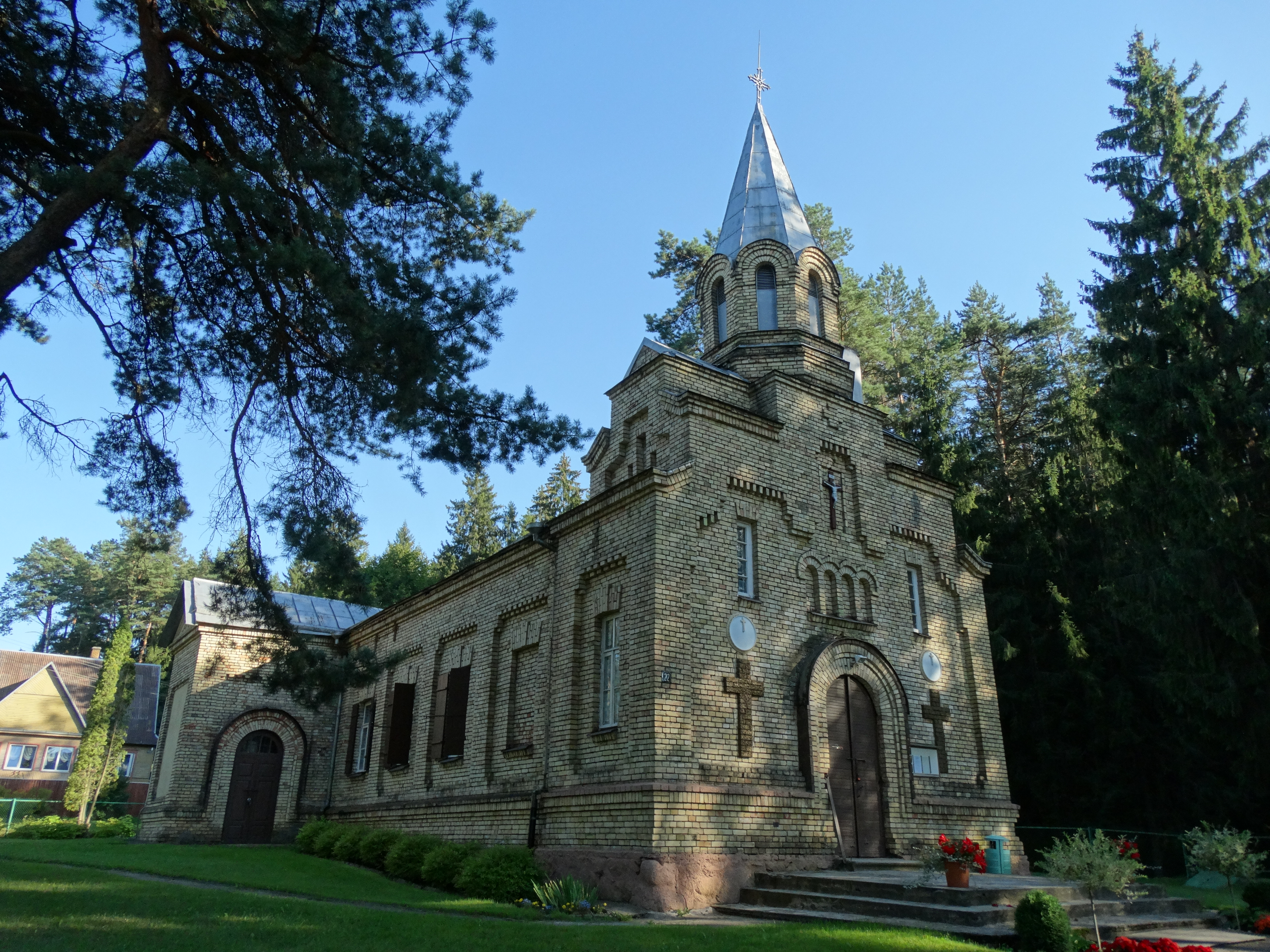 Orthodox Church of st. Sergius of Radonezh, Pabradė, Švenčionys District, Lithuania